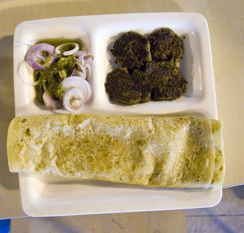 Galouti Kababs, with Roomali Roti, served from Tunday Kababi in Lucknow, India